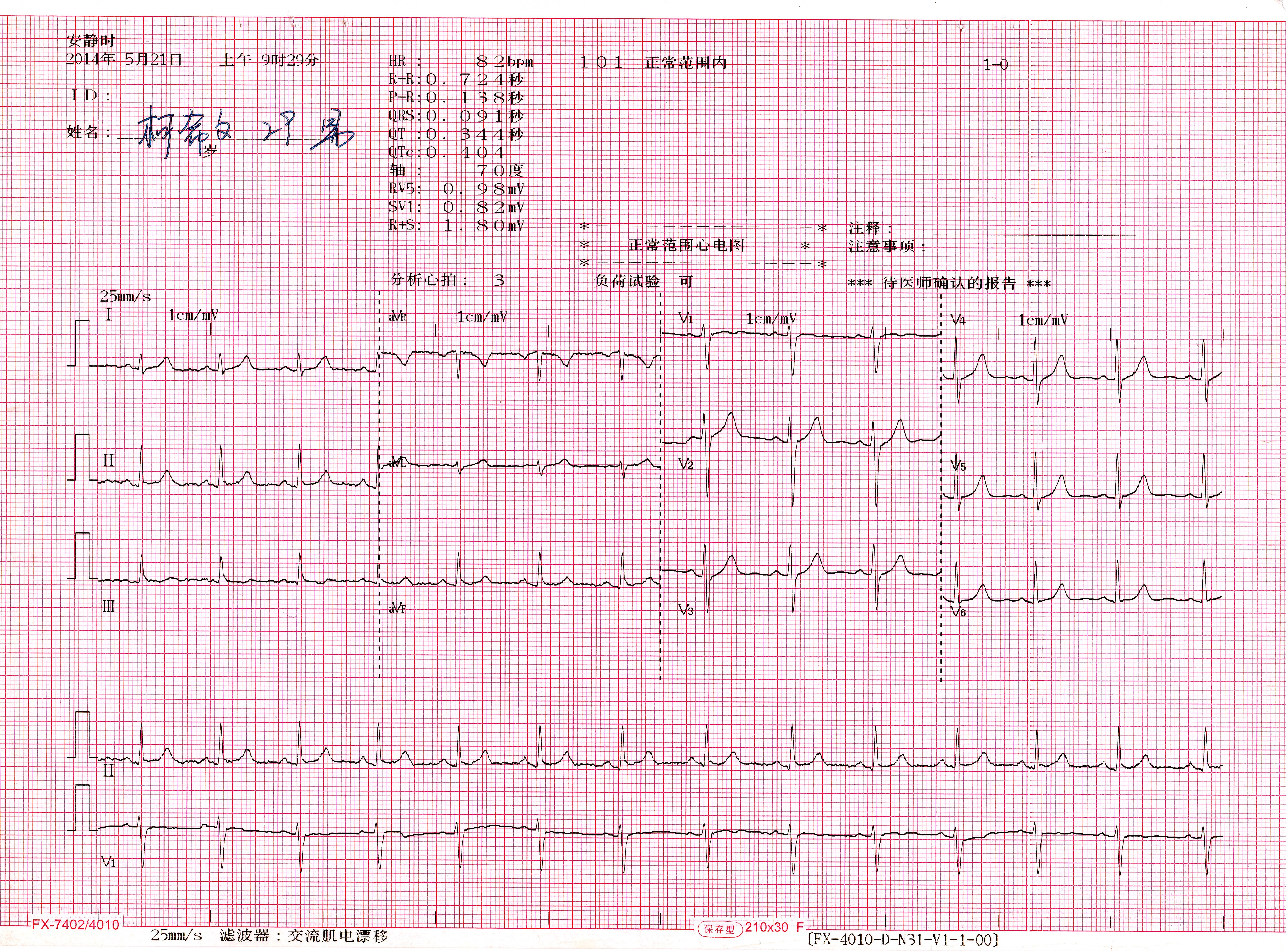 Normal 12-lead electrocardiogram (Instrument: Nihon Kohden, Japan)